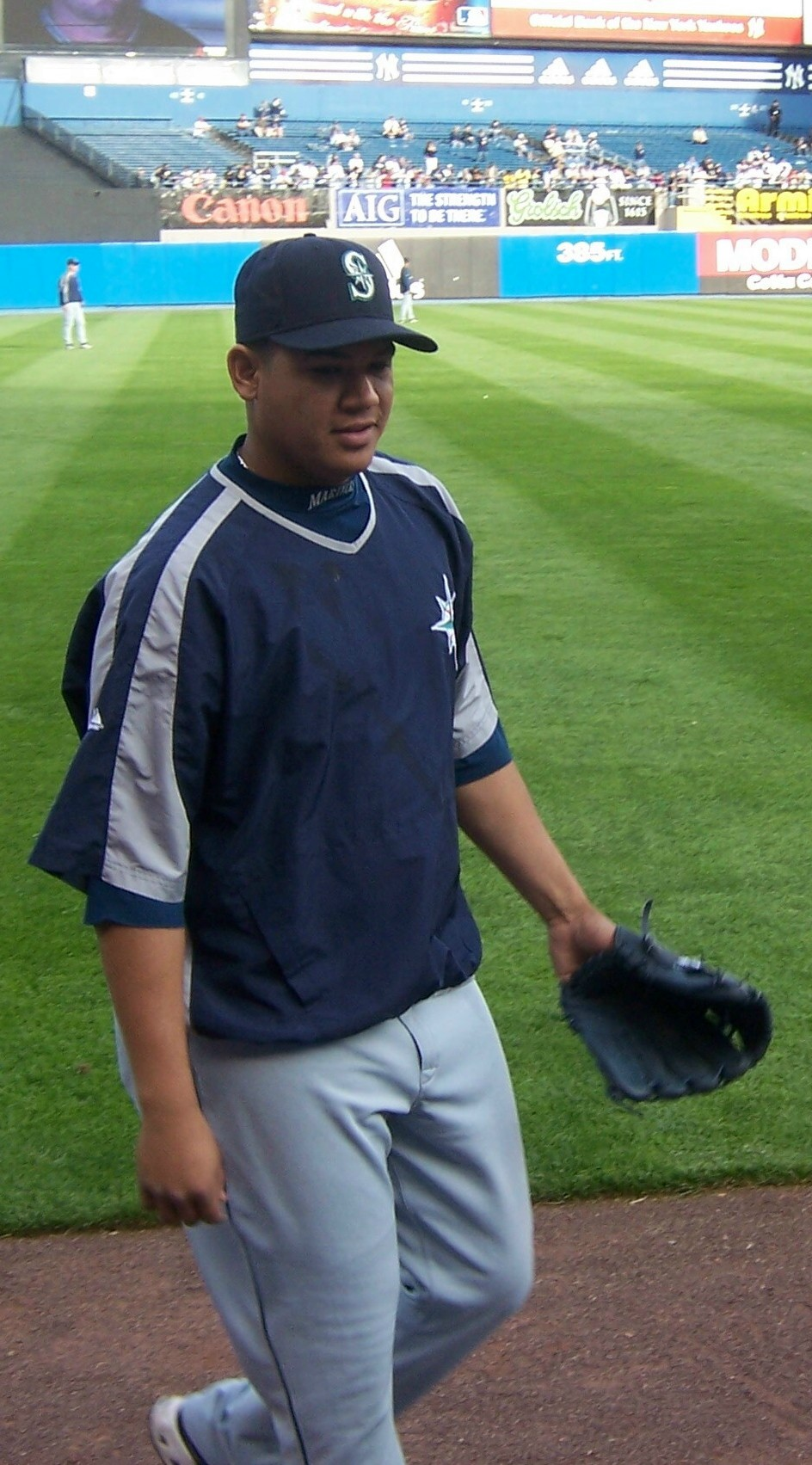 Felix Hernandez at Yankee Stadium on May 5, 2007. 03:27, 19 April 2008 . . ChicagoMayne . . 944×1,703 (443 KB)